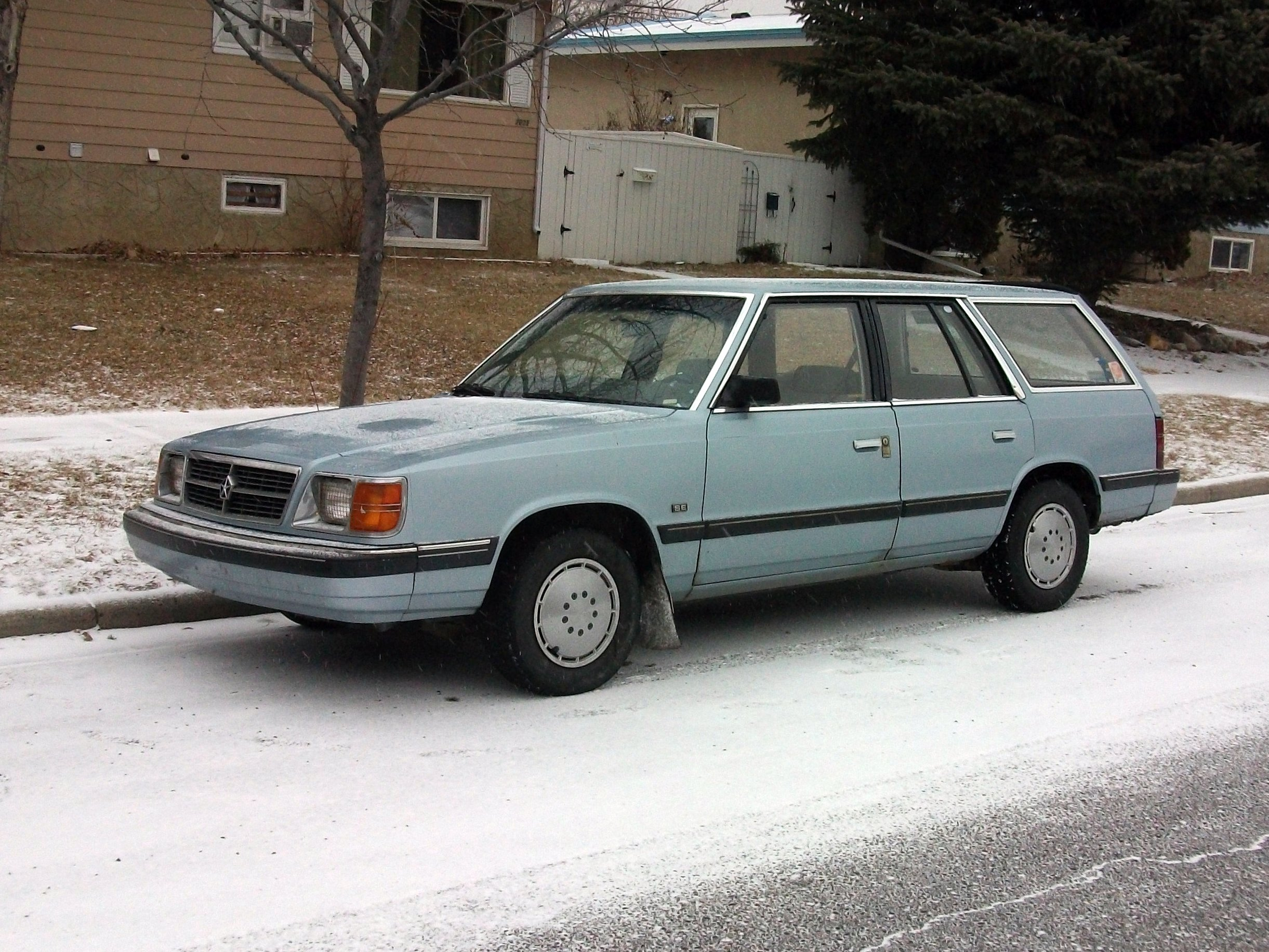 Dodge Aries station wagon